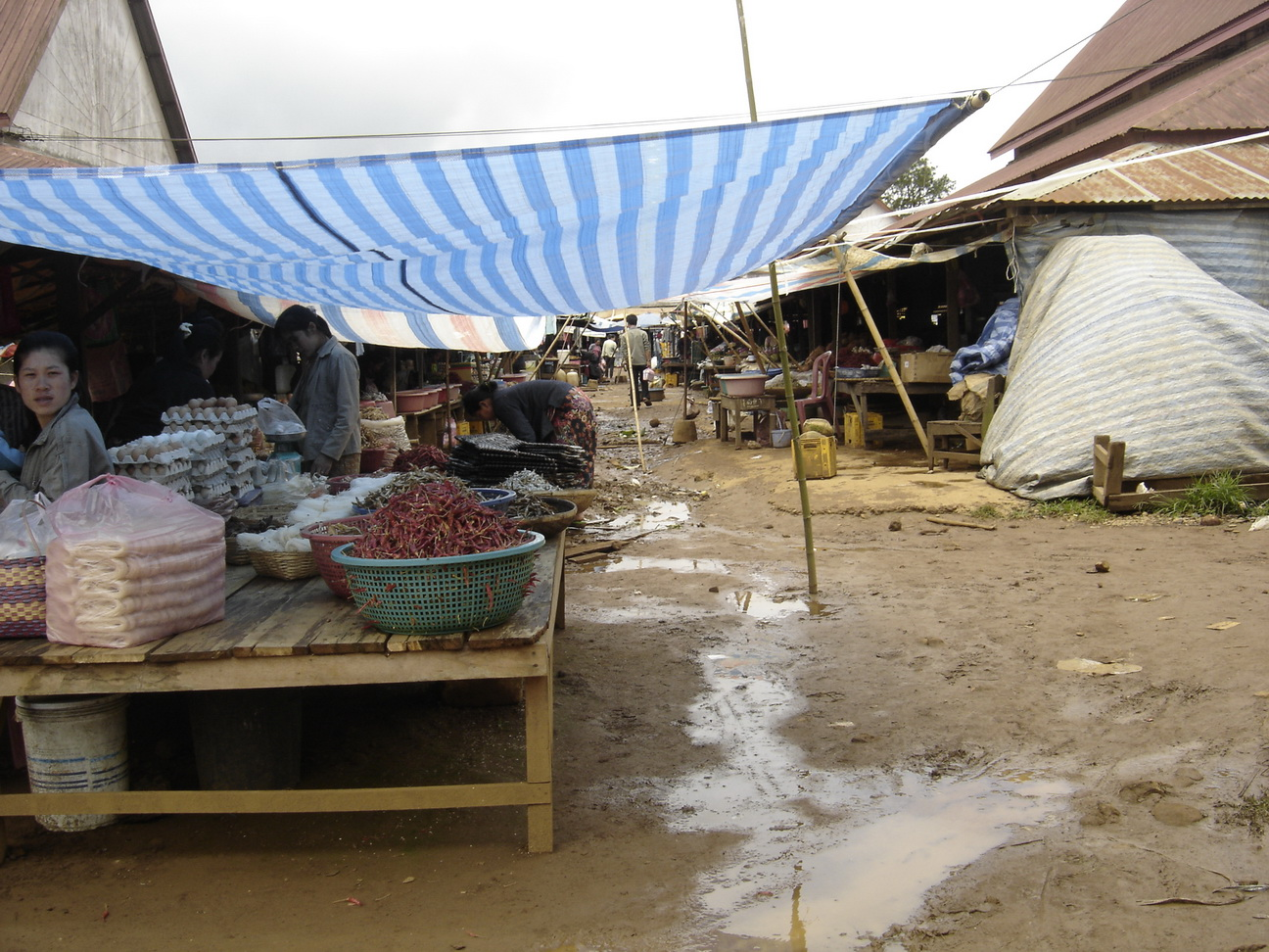 Market in the town of Paksong, Laos